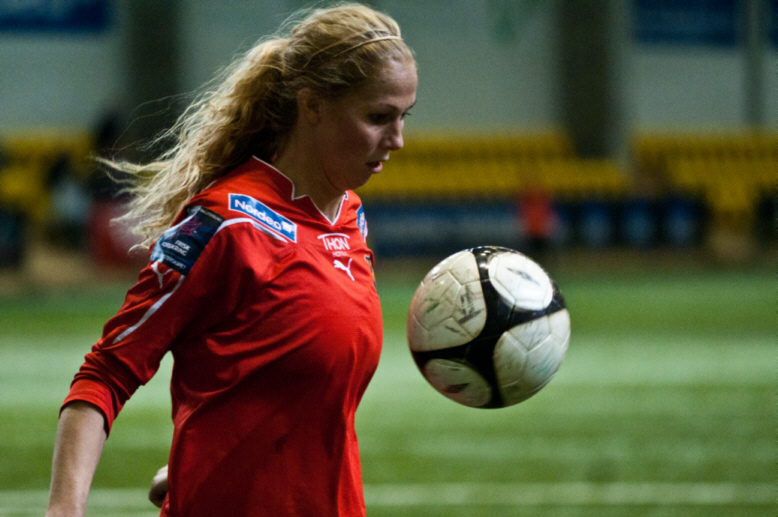 Marit Fiane Christensen returning to football against LSK.